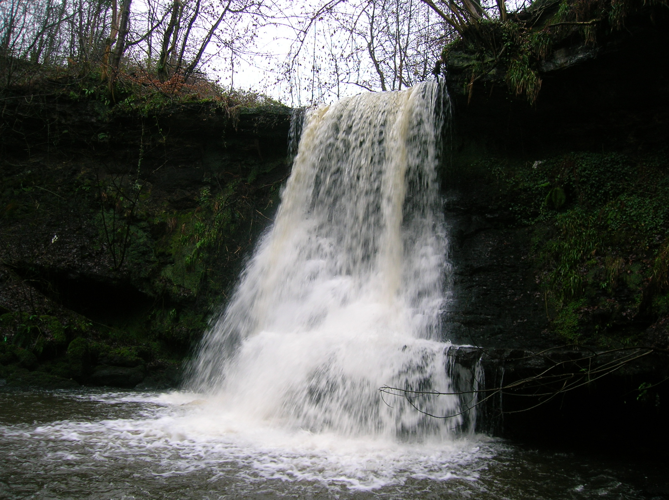 Tianna also known as Linn Spout falls on the Powgree Burn, Kilbirnie, North Ayrshire, Scotland